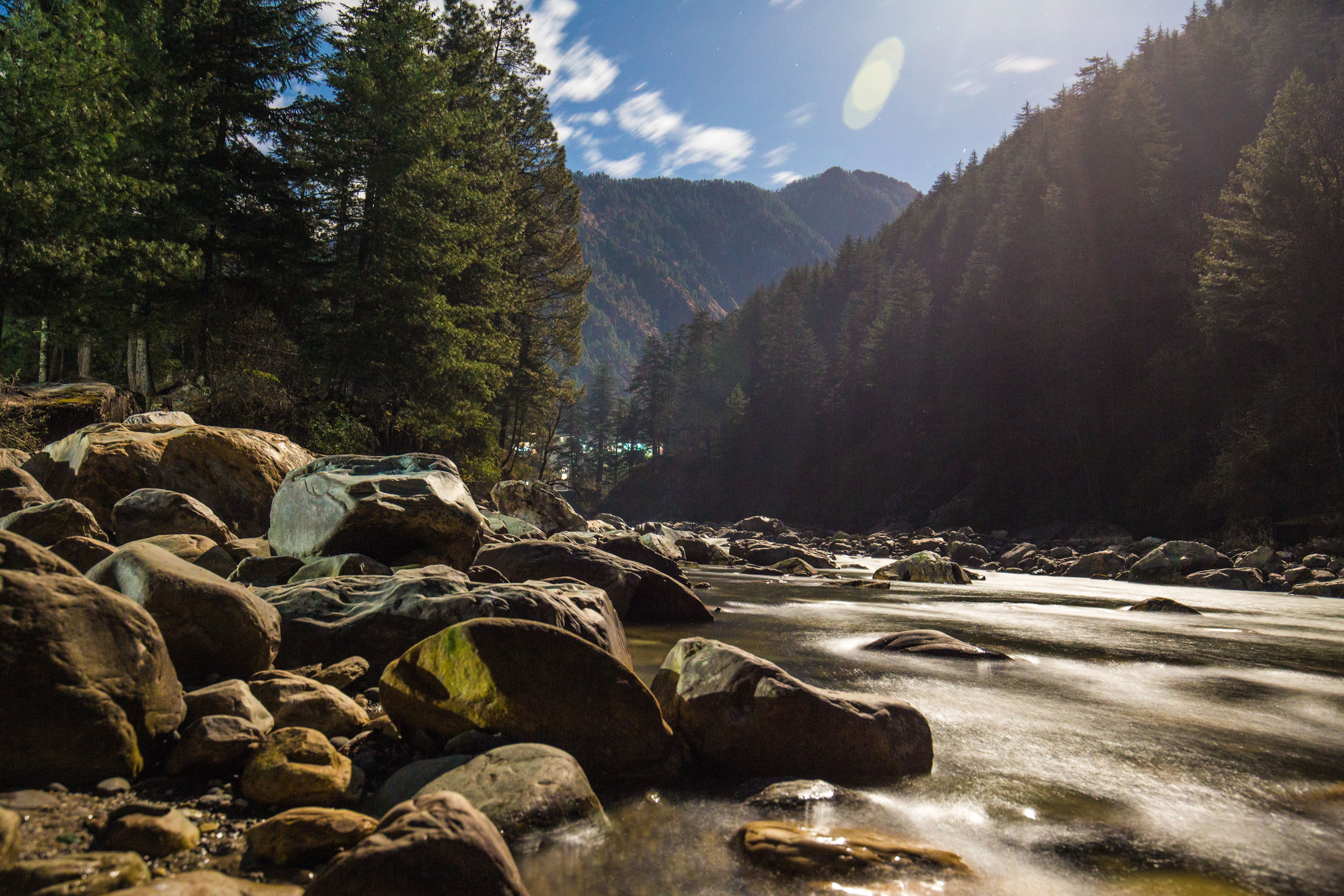 A slow shutter capture of the Parvati River in the night as the moon lights the rocks and surroundings on the outskirts of Kasol Town.